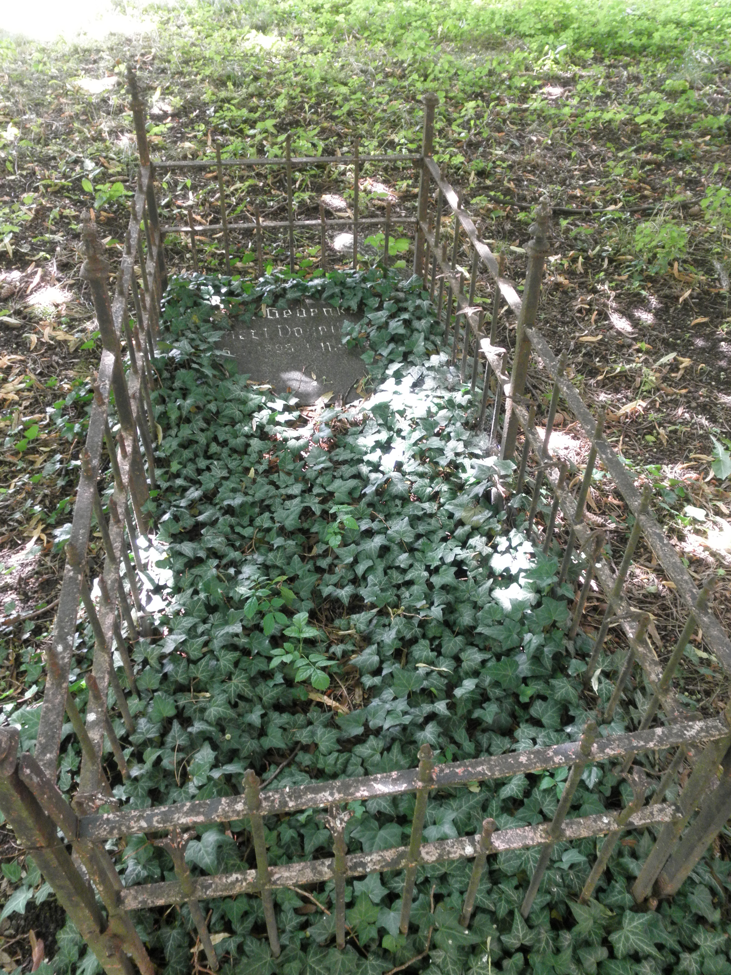 Grave in Münchengosserstädt (Saaleplatte) in Thuringia